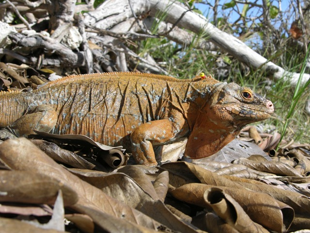 This is a photo taken by Dr William Hayes of Cyclura Rileyi rileyi on Green Cay in the Bahamas. Uploaded with the author's permission.